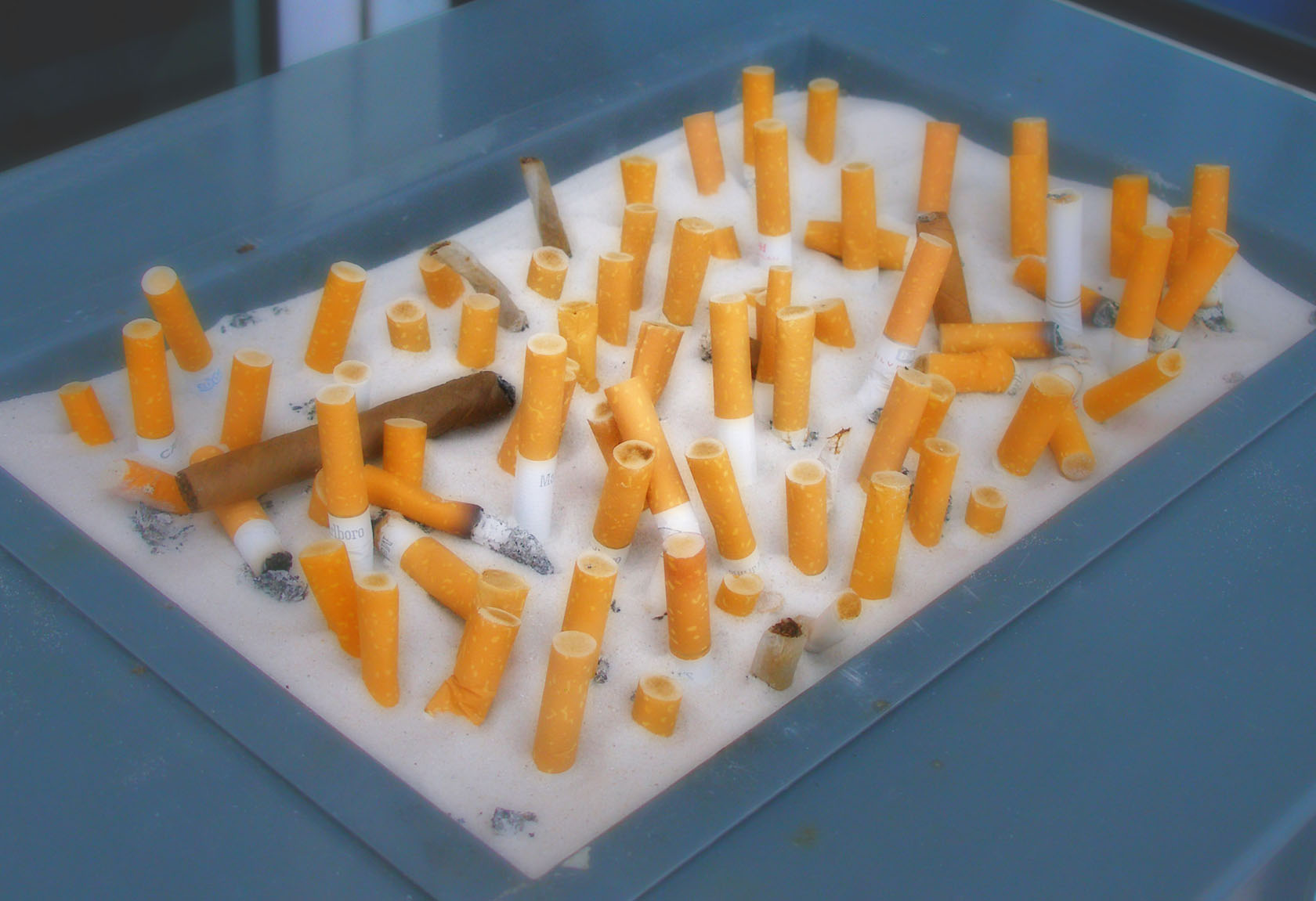 Smoker's Trough! Cigarette ends outside a motorway cafeteria in France.